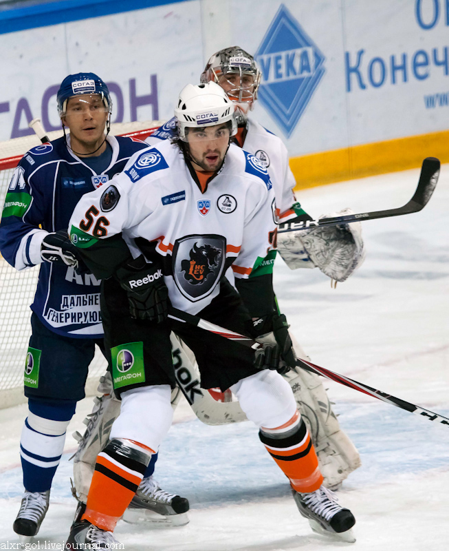 Lev Poprad defenceman Vladimír Mihálik (in the foreground) and Amur Khabarovsk forward Dmitri Tarasov during KHL game on January 10, 2012.